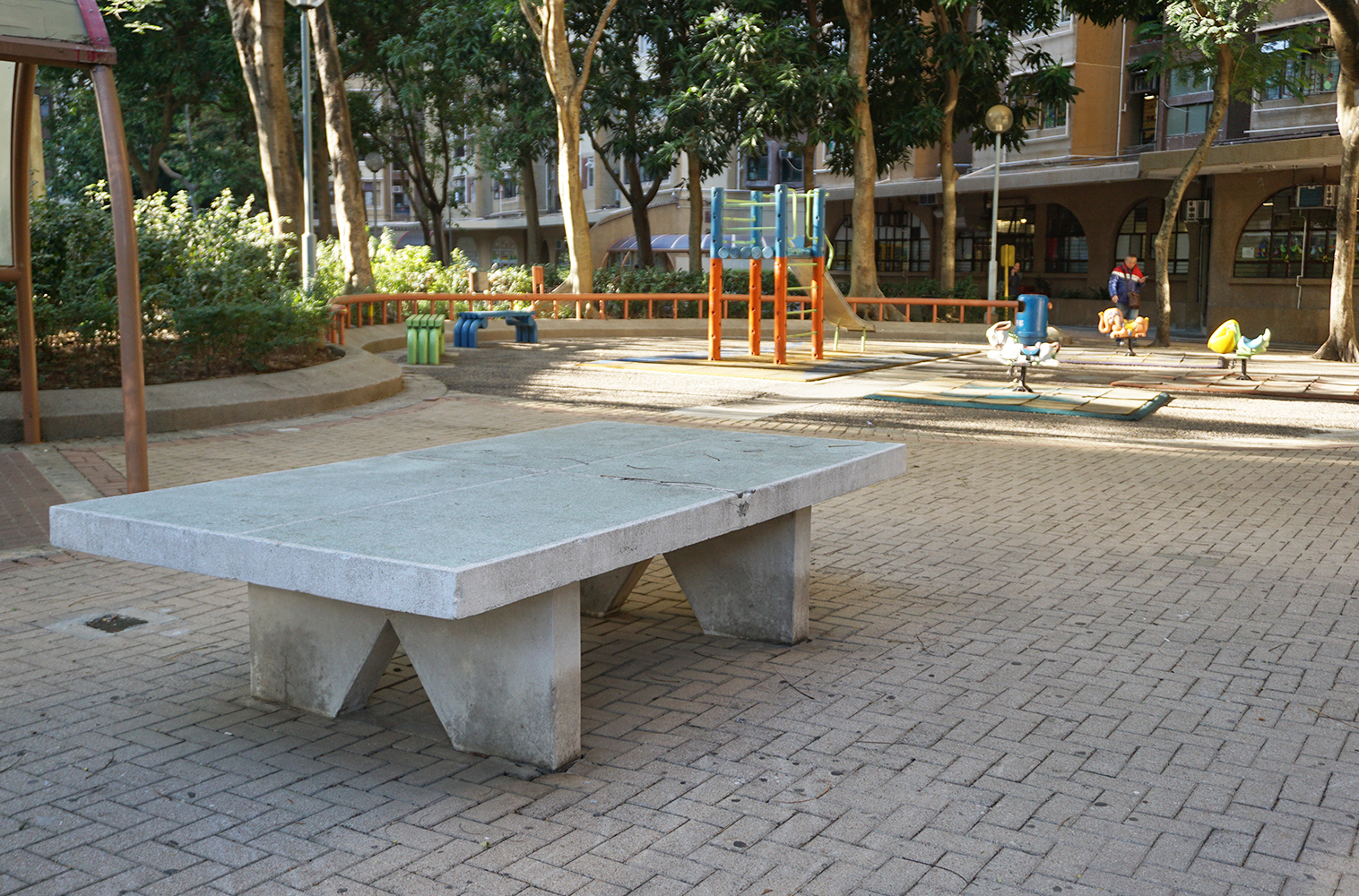 Hin Keng Estate in Tai Wai, Hong Kong.